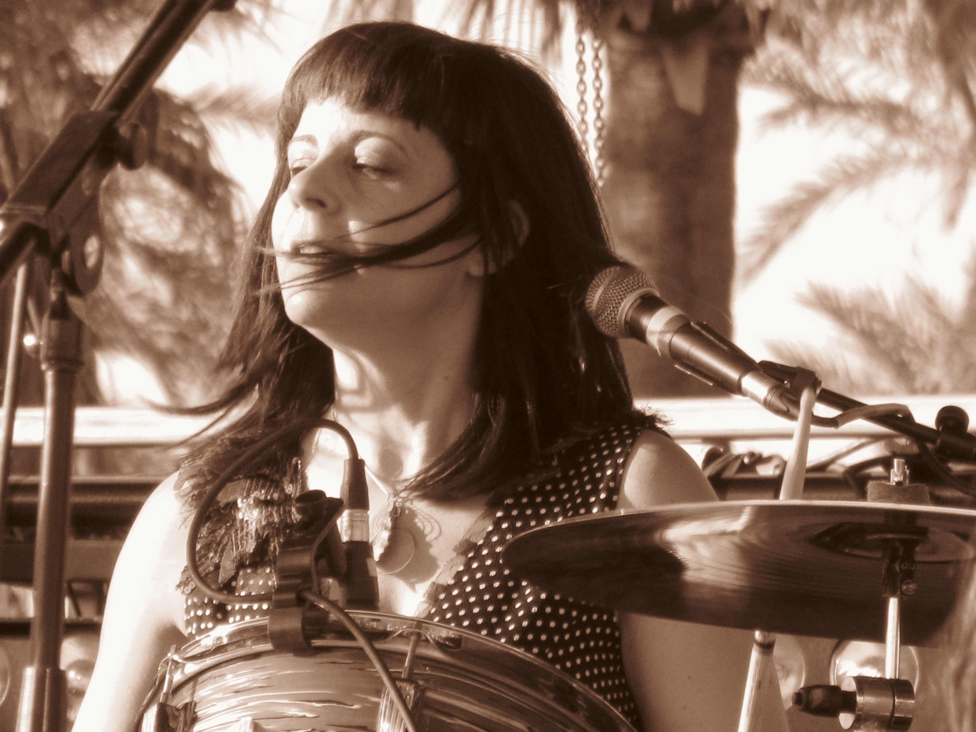 Our voyage comes to an end on Sunday (always nostalgic and sad) at Coachella 2012 Weekend 1: Day 3 (4/15) Indio, CA.